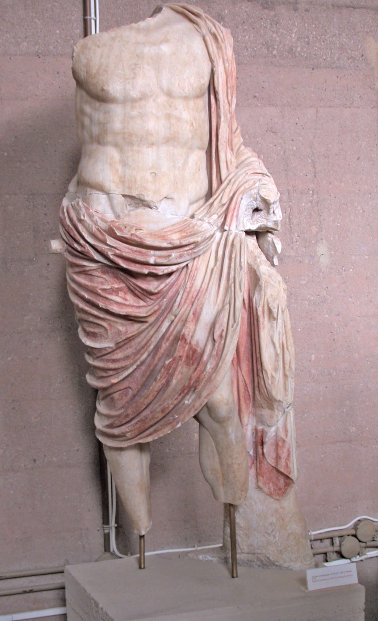 Ancient Corinth, Museum, Roman statue with colour